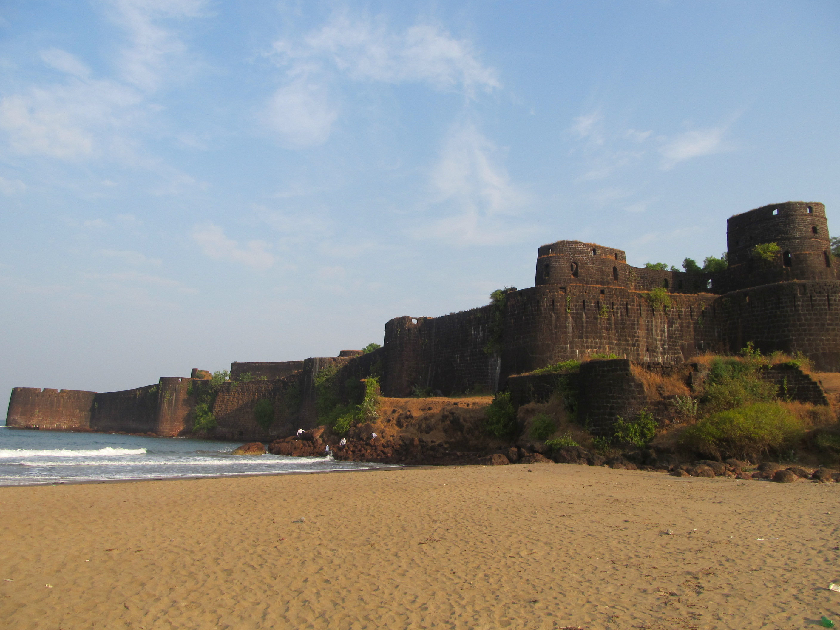 The powerful ramparts and bastions of the Fort of Vijaydurga standing tall off the Konkan coast in Maharashtra,India